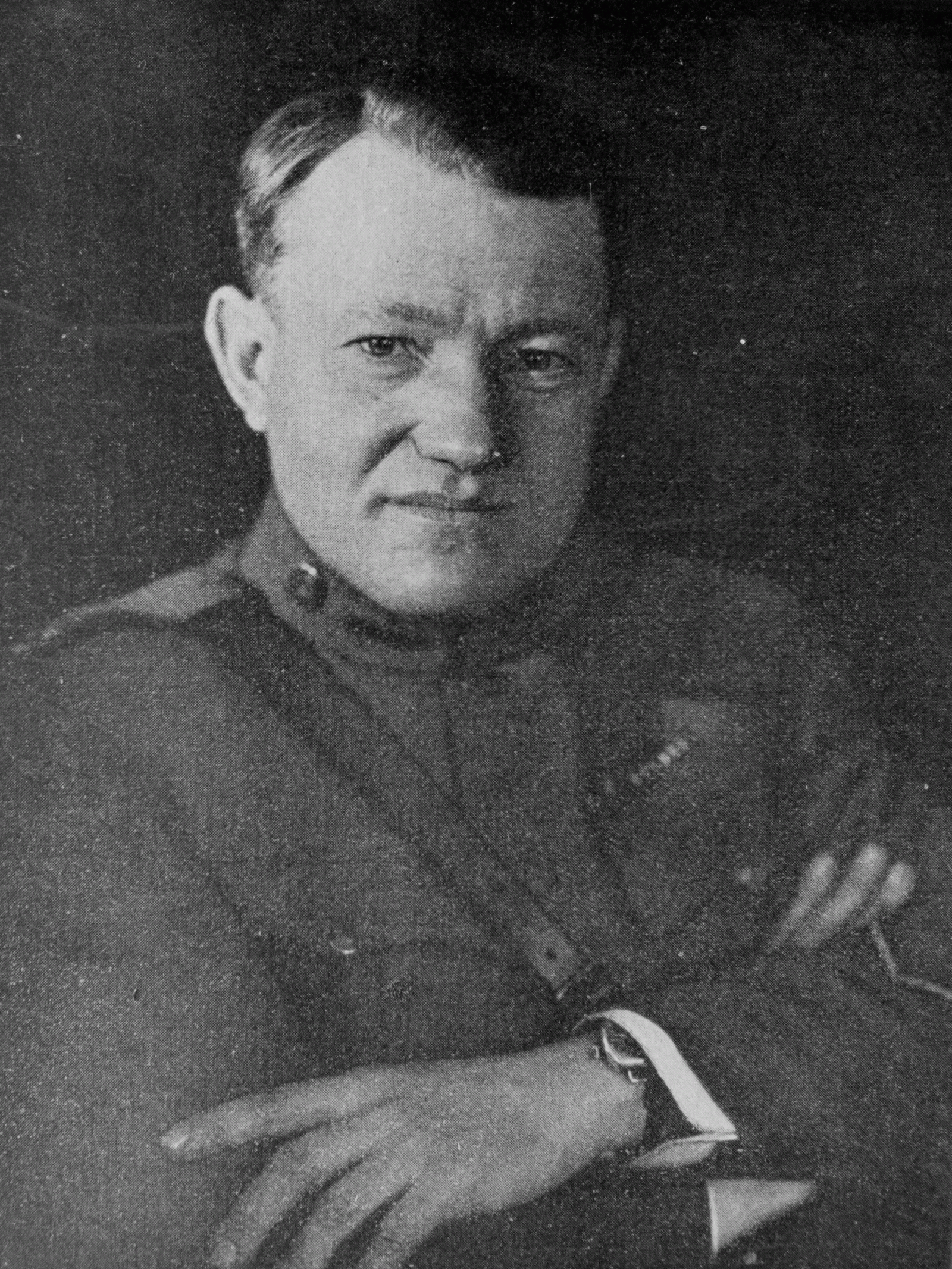 The member of delegation of the American "Czech National Association" Captain Emanuel Viktor Voska (* 6 November 1875 in Kutná Hora - April 1, 1960 in Prague) was a stonecutter, later the owner of stone quarries, a secret service agent of the United States of America. Photo before zear 1921.